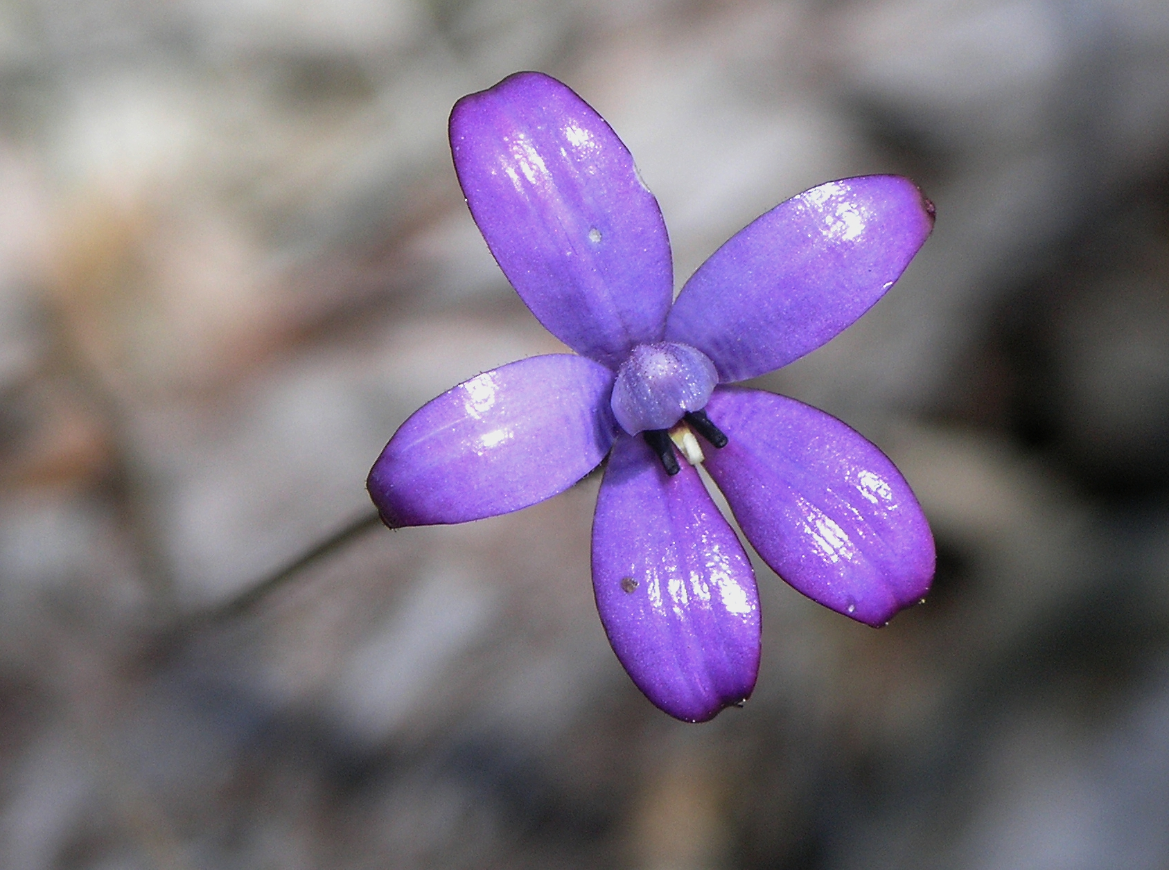 Elythranthera brunonis SMC 2007